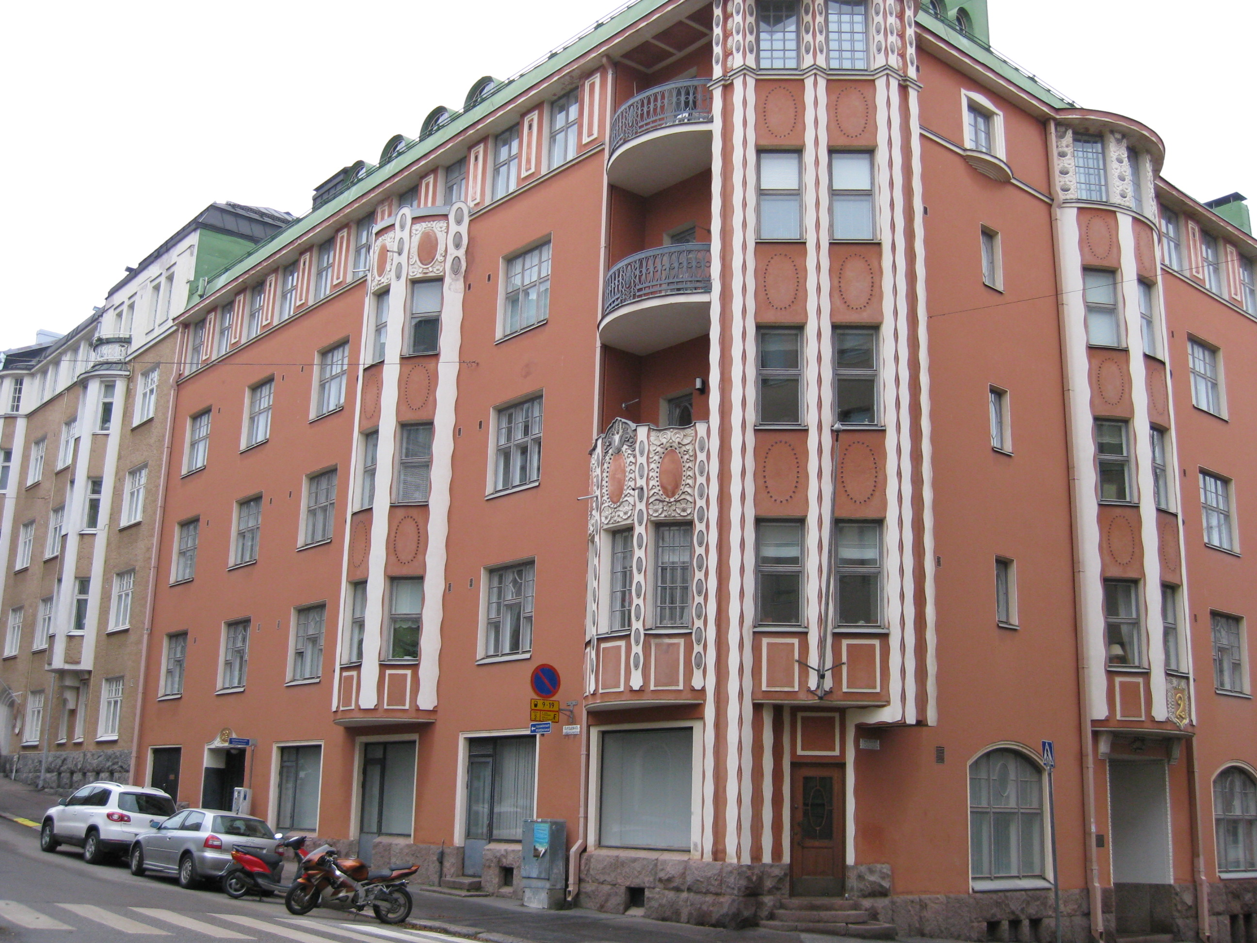 The building where Risto Ryti lived 1918 to 1935 in Helsinki. Block of flats painted pink with white details and decorations. The number 2 is visible on the entry door to the right, and the plaque giving the dates is just to the left of the door.